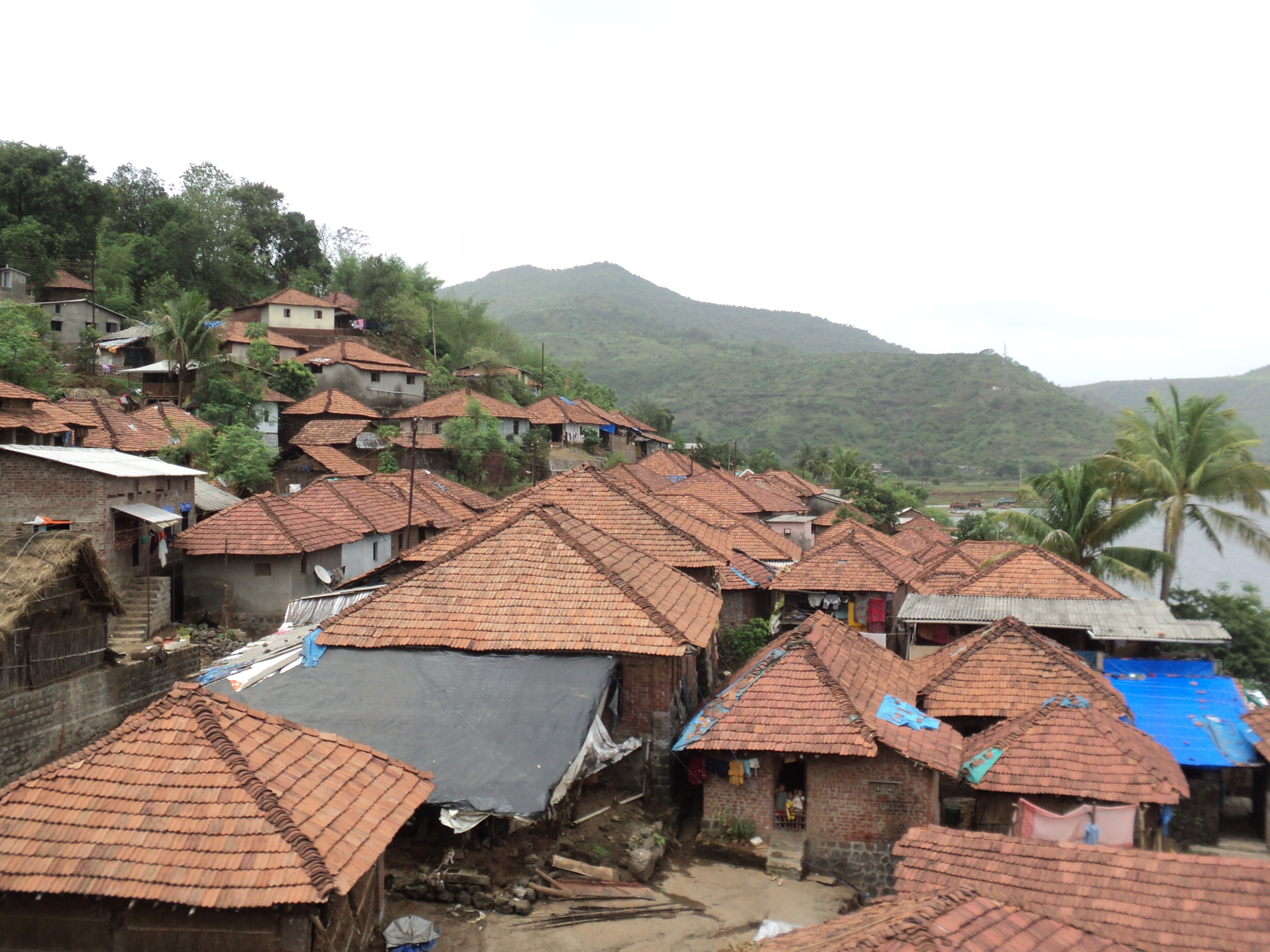 Traditional houses in Konkan region